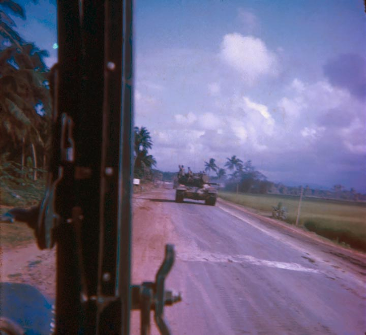 Photo of a US Army tank on QL-1 taken by a soldier from the 19th Combat Engineer Battalion near Bong Son, Vietnam. Circa 1968.